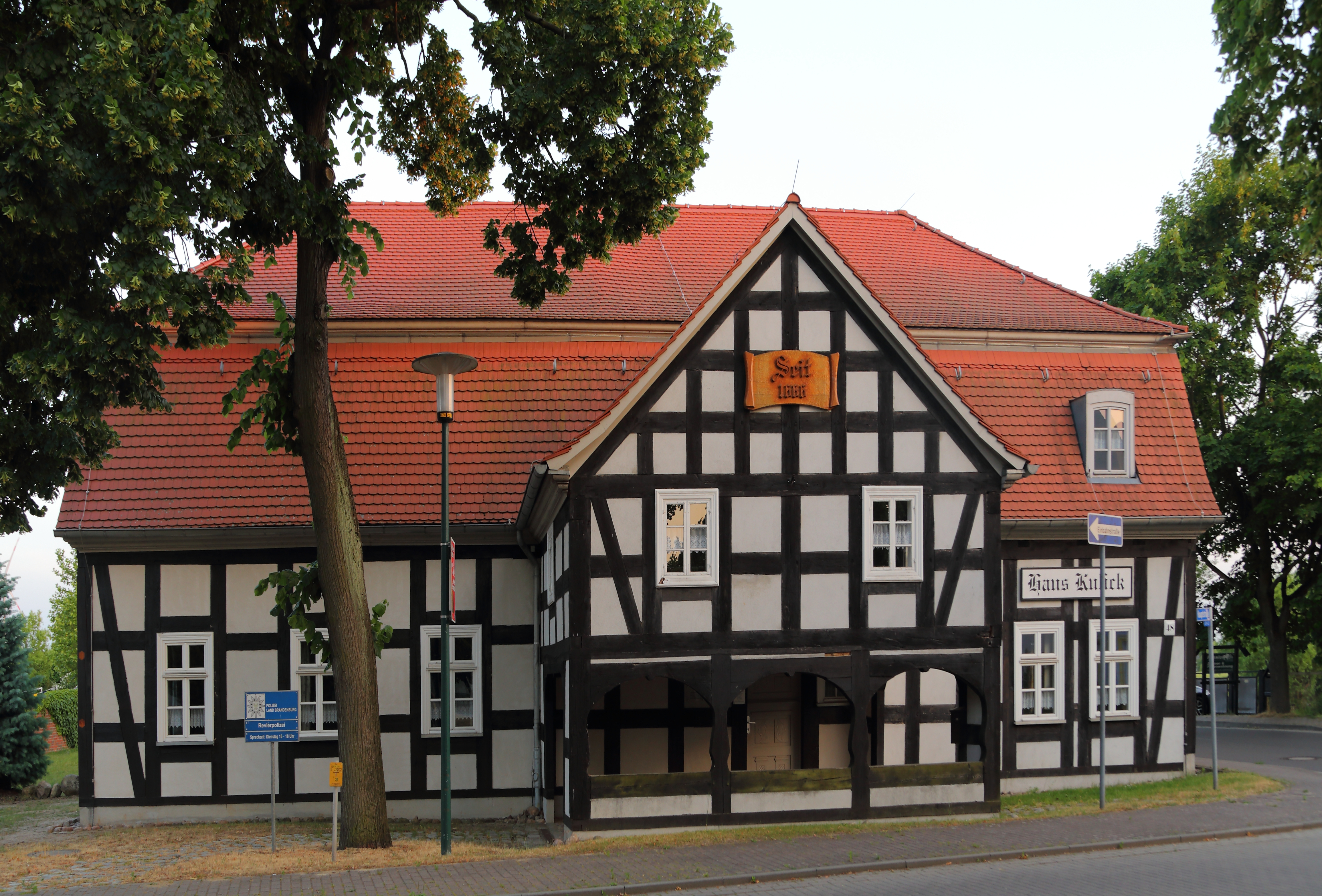 Kulick House (Haus Kulick) in Schönwalde, a district of Schönwald, Landkreis Dahme-Spreewald, Brandenburg, Germany.